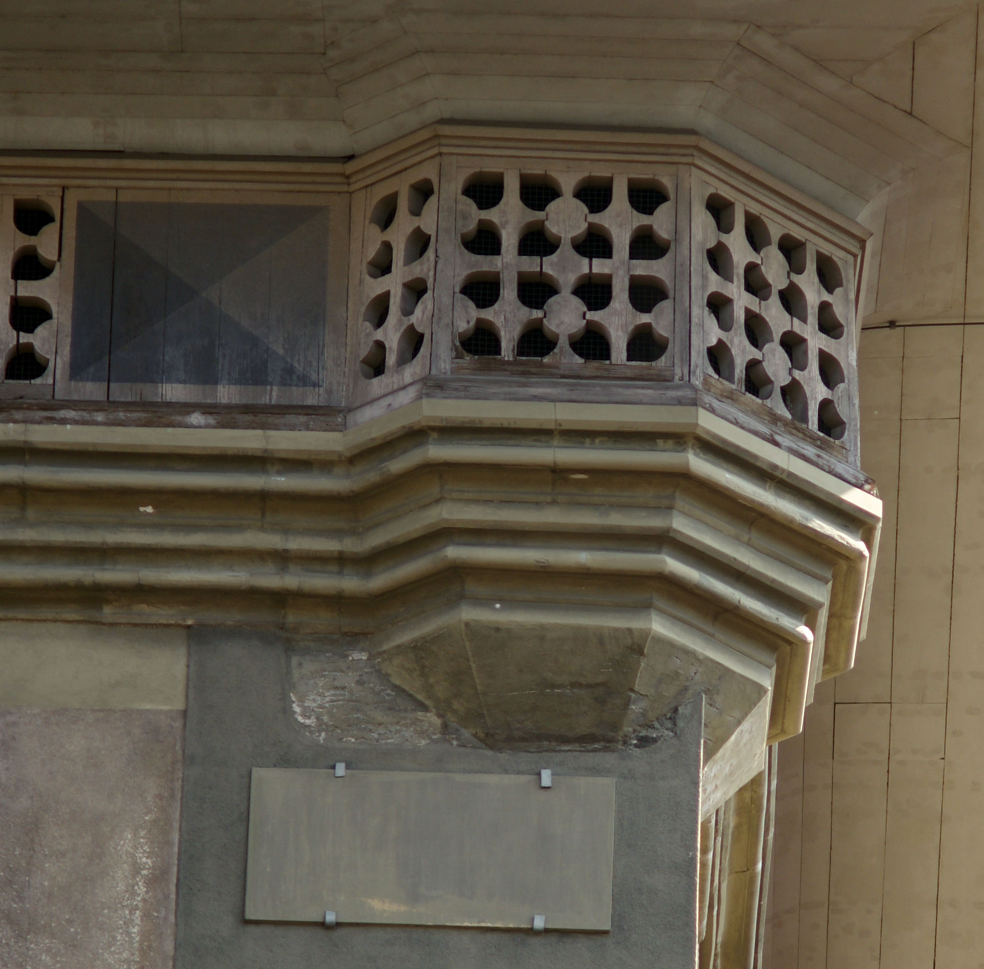 Zytglogge tower in Bern, Switzerland. Architectural detail: wooden Gothic cornice and decorative plating.